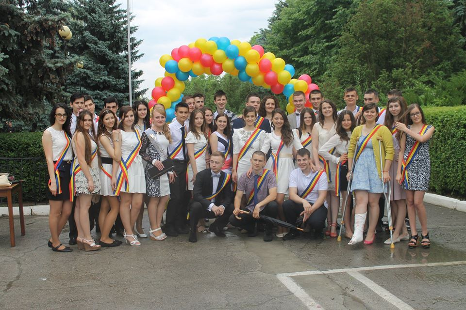 The students of Alexandru cel Bun High School in Tighina, Moldova, celebrating the end of the school year. This photograph was given to me by a friend, who agreed for me to upload it here.